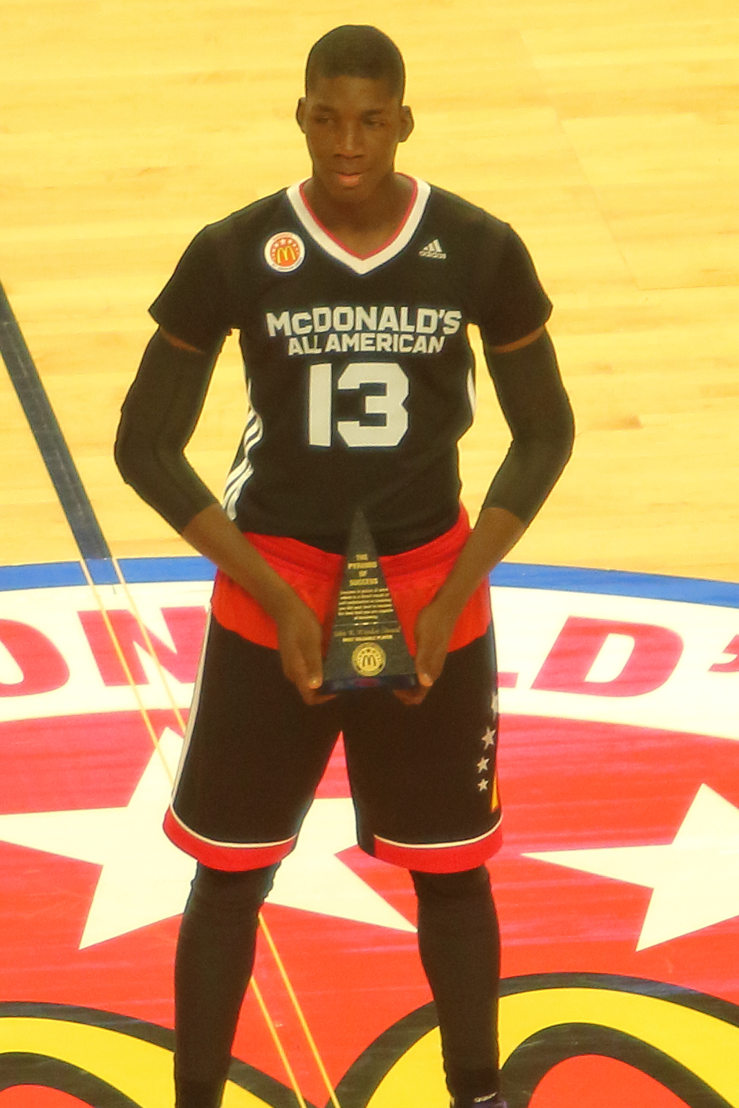 Cheick Diallo at the w:2015 McDonald's All-American Boys Game MVP award presentation (RAW file available upon request)